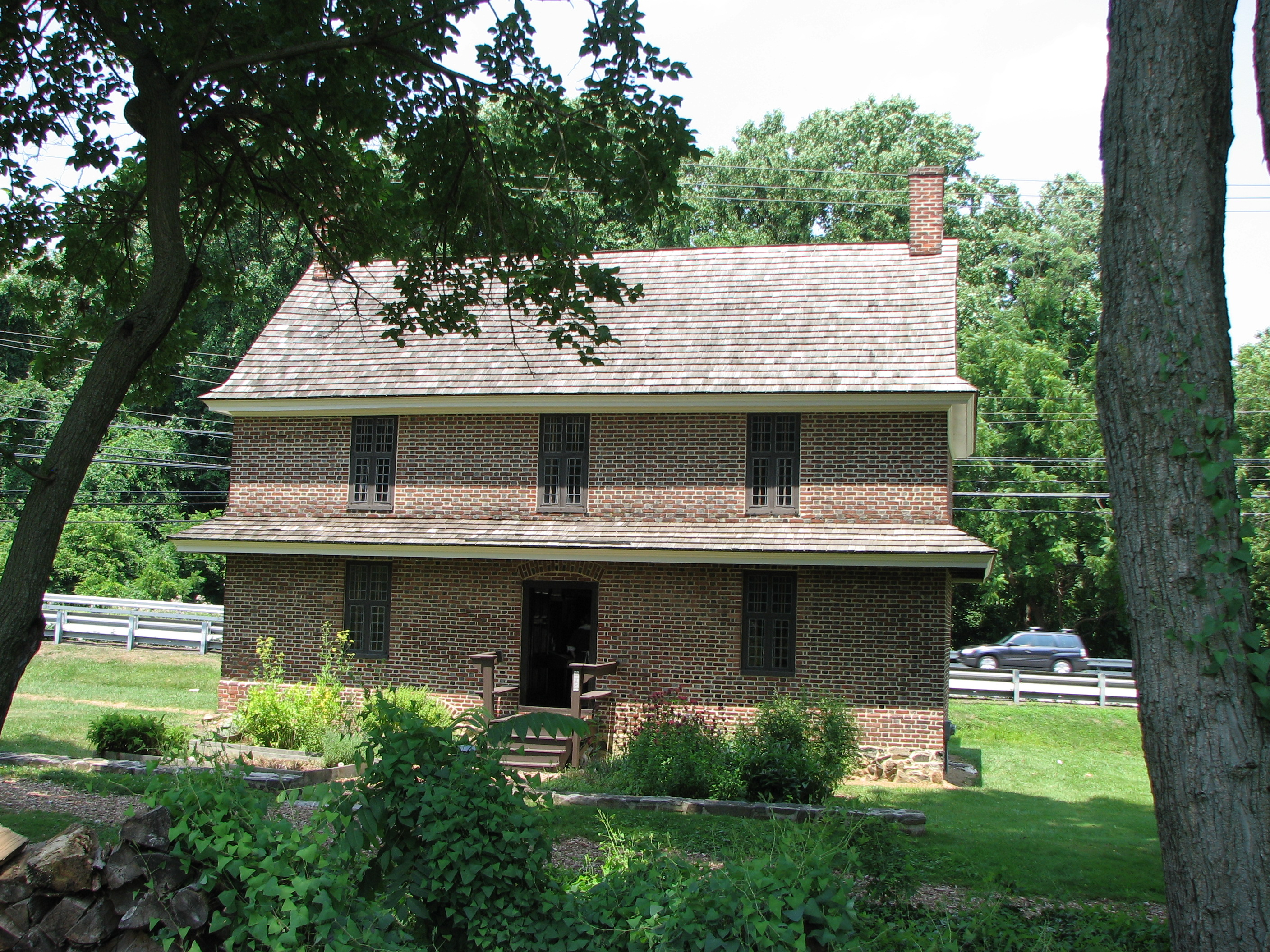 Rear of the Barns-Brinton House, a historic tavern in Chadds Ford, Pennsylvania now administered as a museum by the Chadds Ford Historical Society.